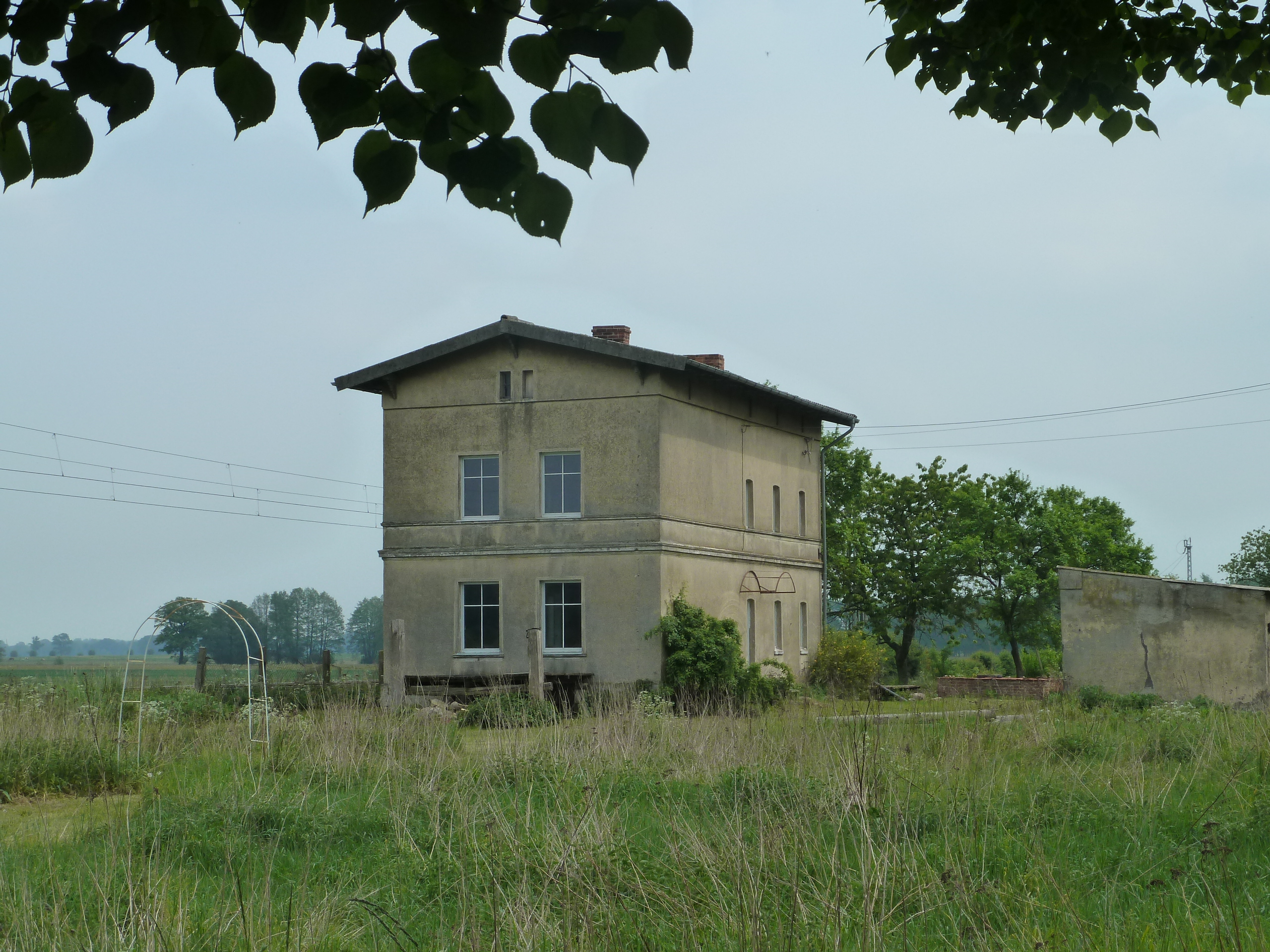 Rail workers' house in Hühnerland, between Klein Warnow and Grabow at the railway line Berlin-Hamburg